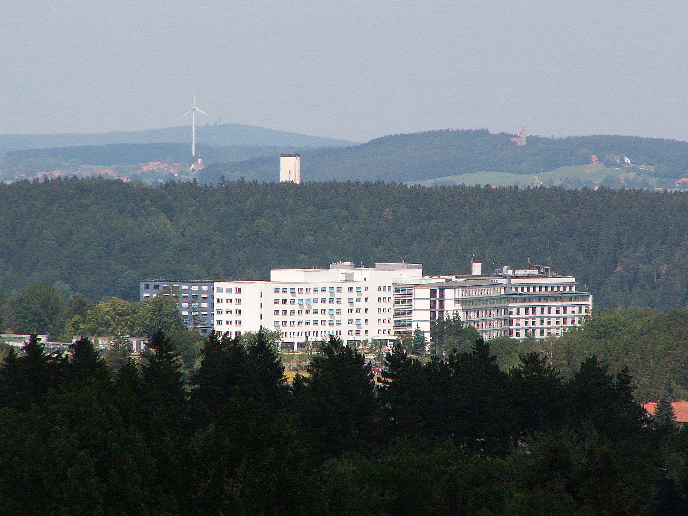 Klinikum Kaufbeuren